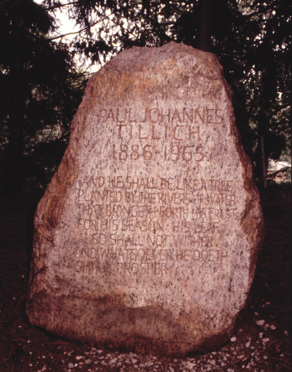 Paul Tillich’s gravestone in the Paul Tillich Park, New Harmony, Indiana, USA